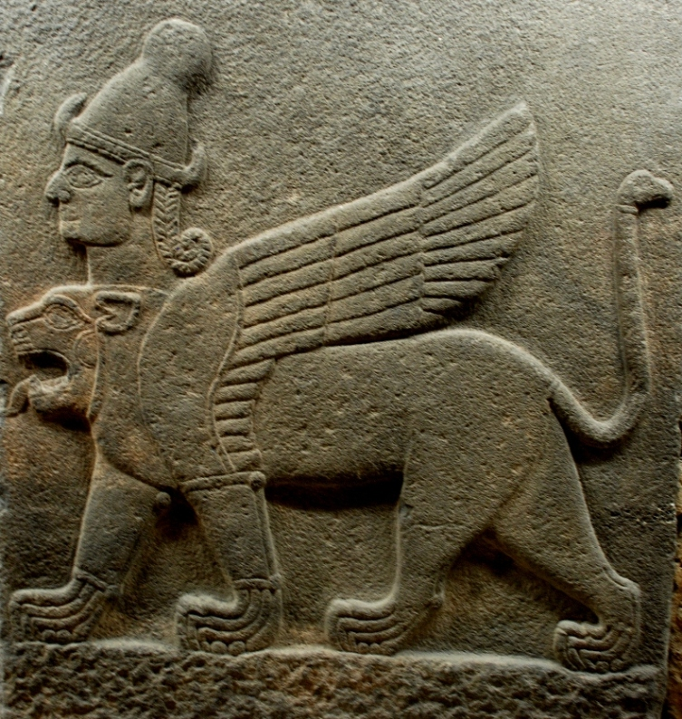 Relief from Karkemis